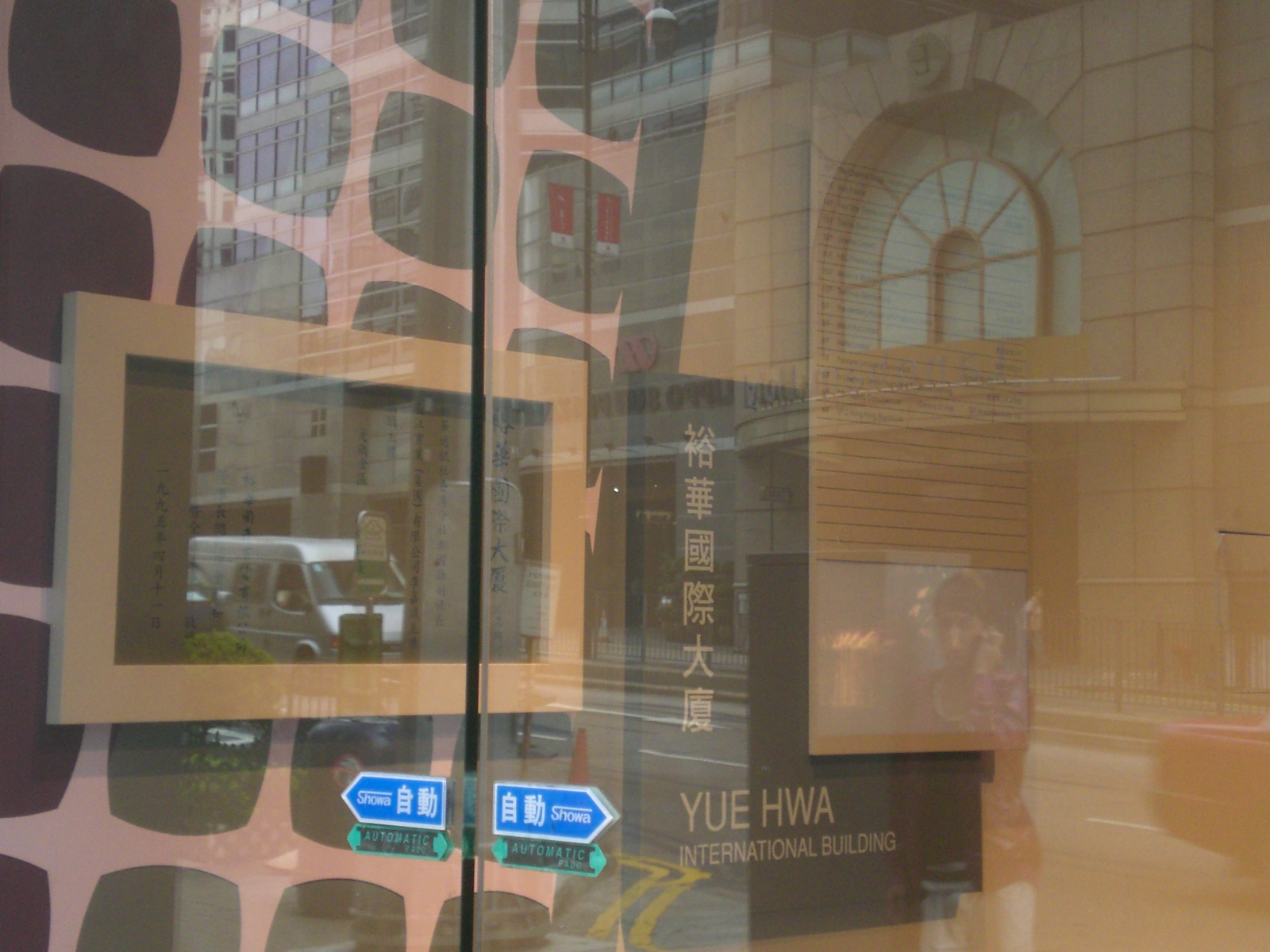 尖沙咀 陰天拍攝 九龍公園徑 裕華國際大廈 自動門